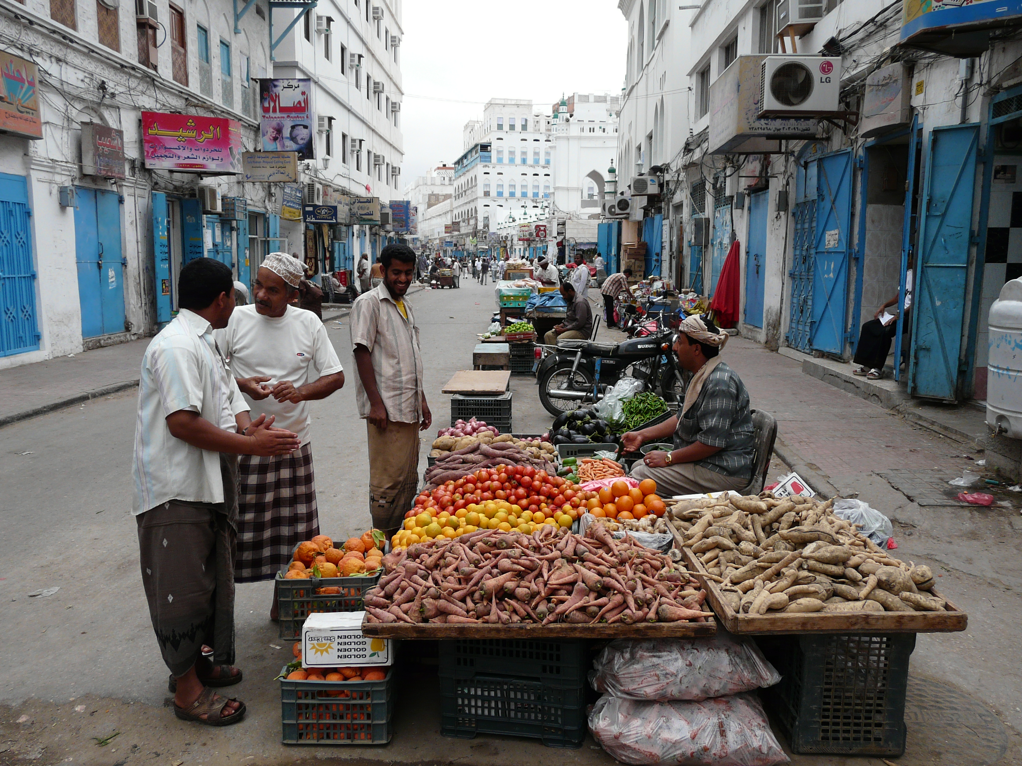 Trading on the Al Mukalla street. Yemen. 08 of February, 2010.